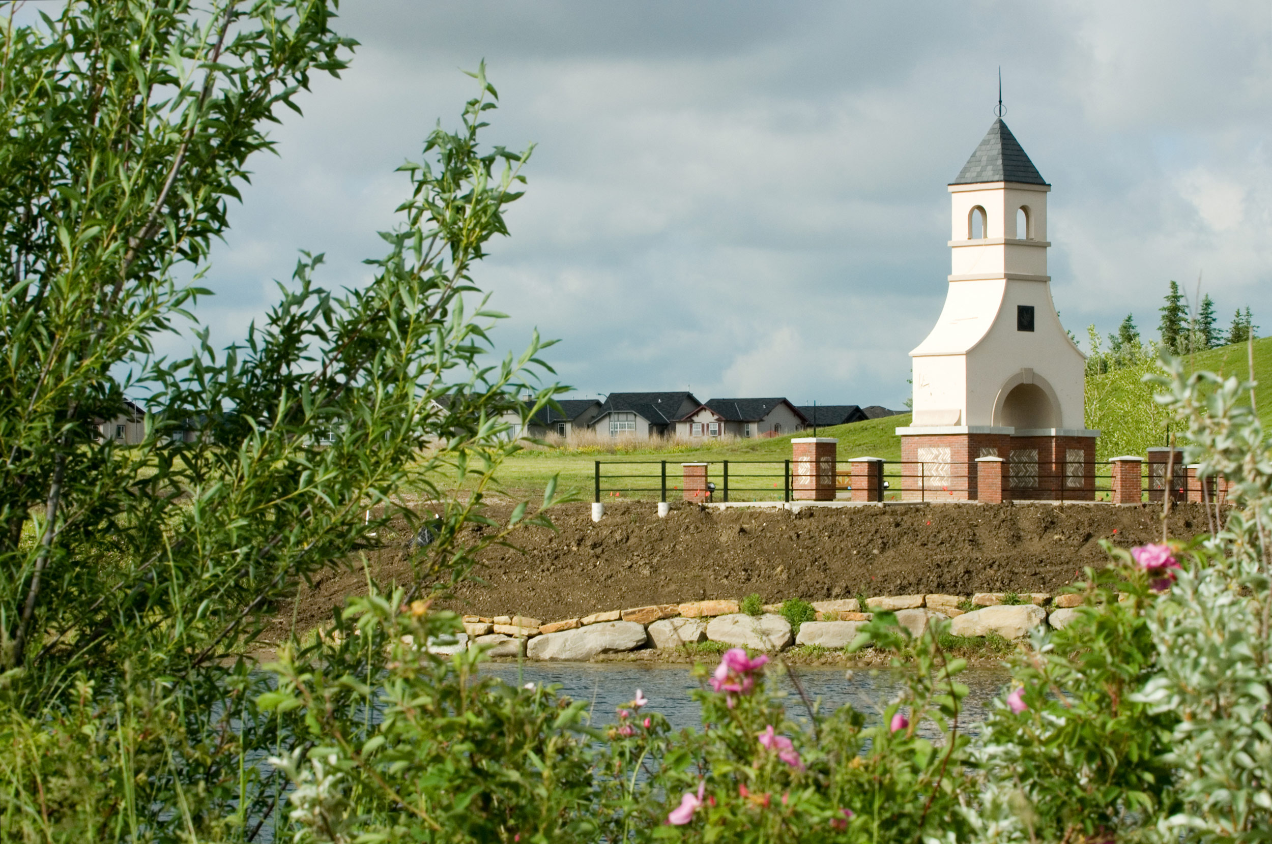 The Bell Tower overlooking the lake at New Brighton, Calgary, Alberta. Photo by Chuck Szmurlo taken June 25, 2007 with a Nikon D200 and a Nikon 70-200 f2.8 lens.